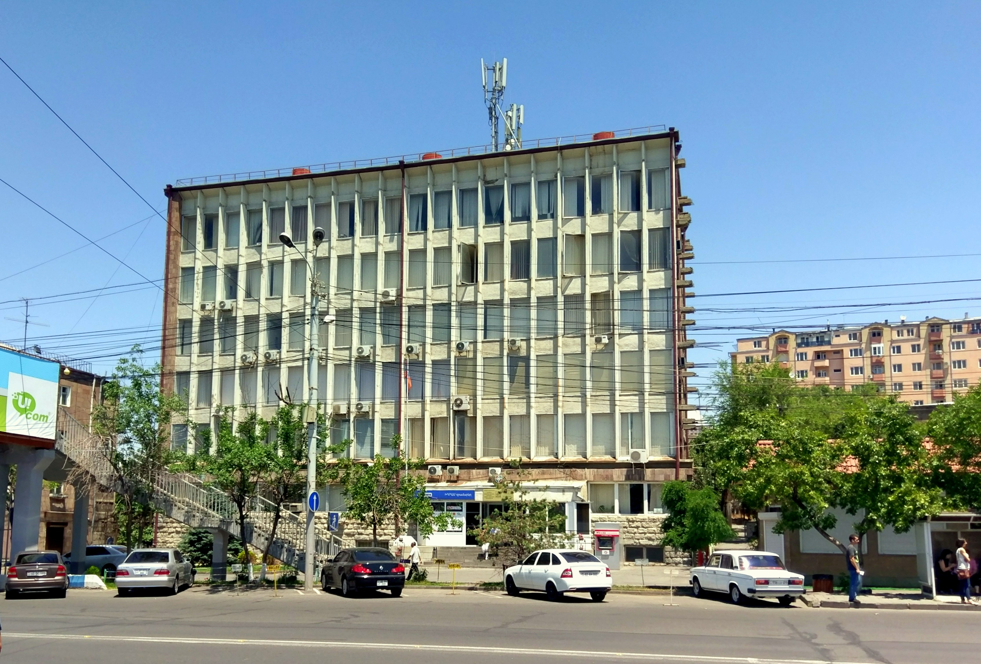 Kanaker Zeytun administration, Yerevan.